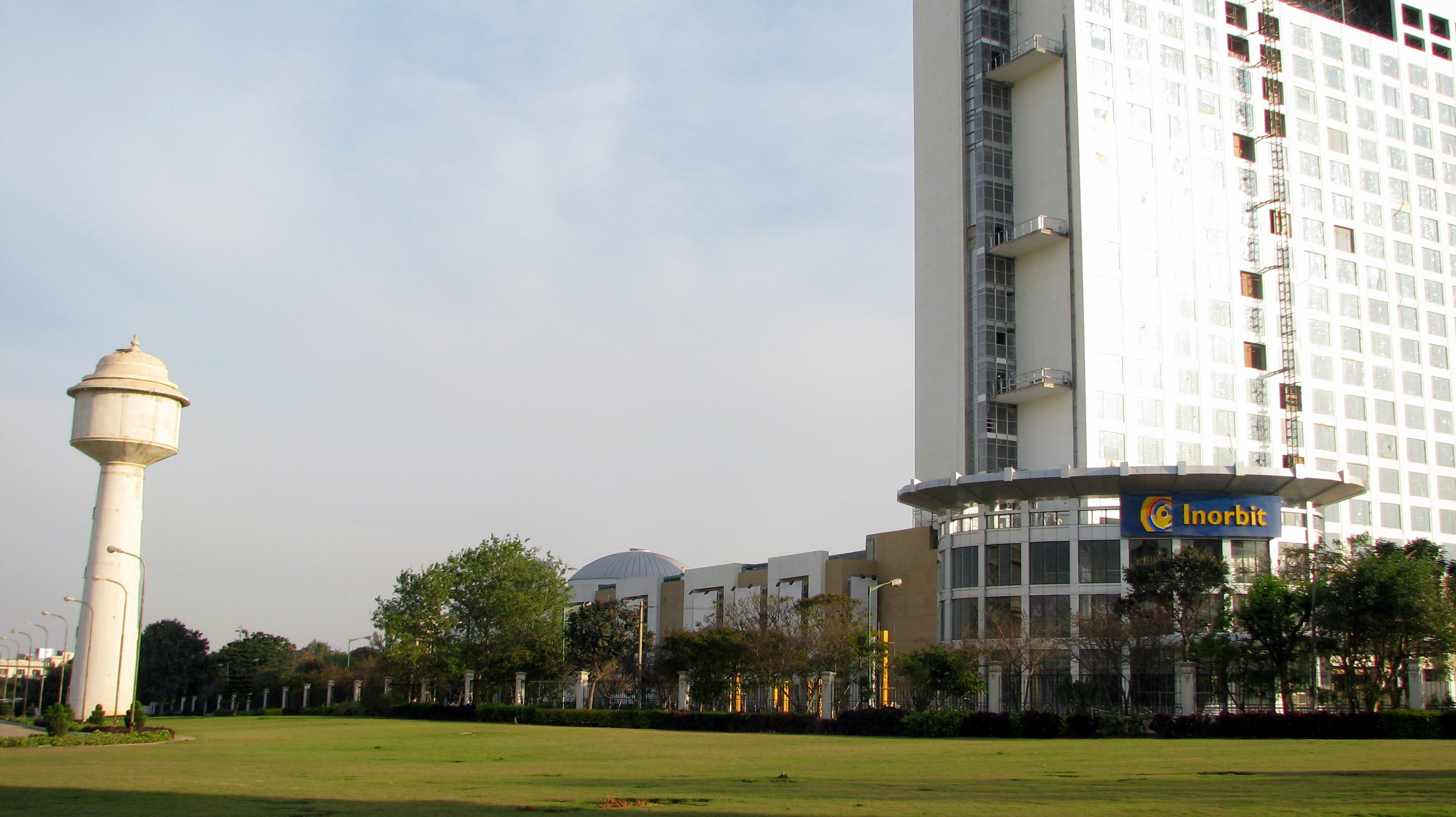 K Raheja Comerzone (Inorbit Mall + Star Hotel + Office Tower)